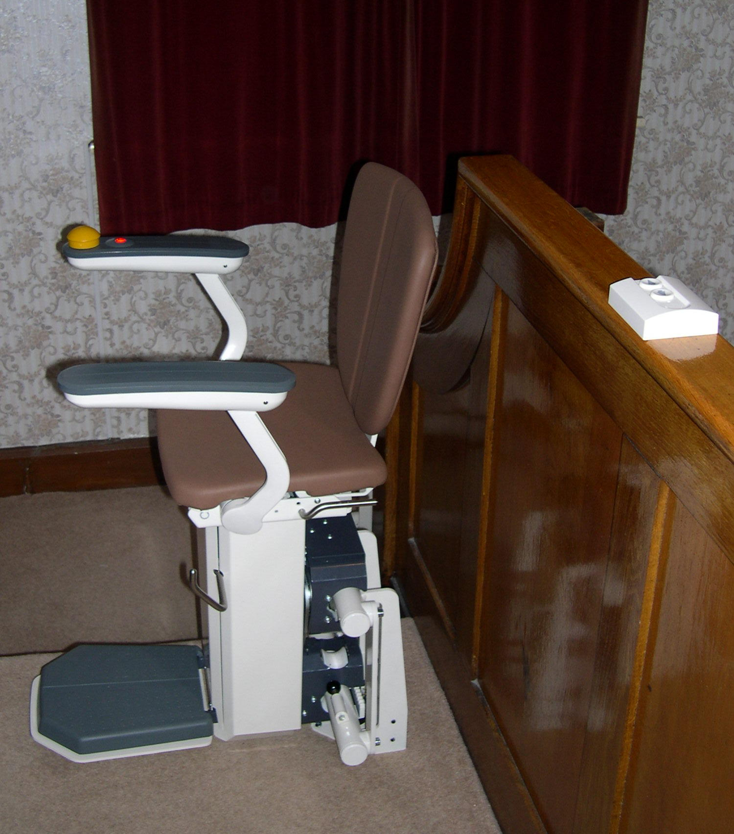 Stairlift with remote control Credit: A Peter Clarke image